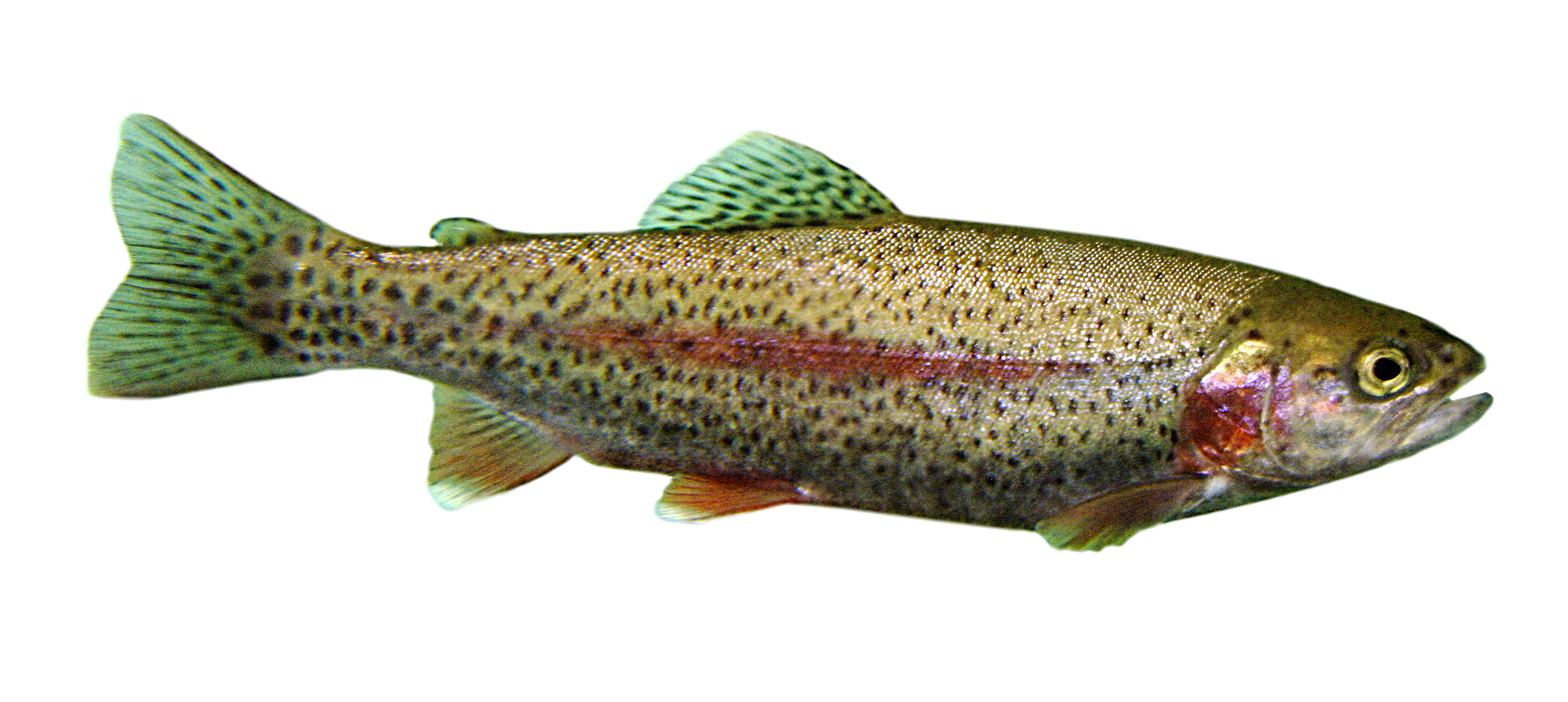 Oncorhynchus mykiss (rainbow trout) swimming in a display tank at the Olmsted County Fair in Rochester, Minnesota, United States